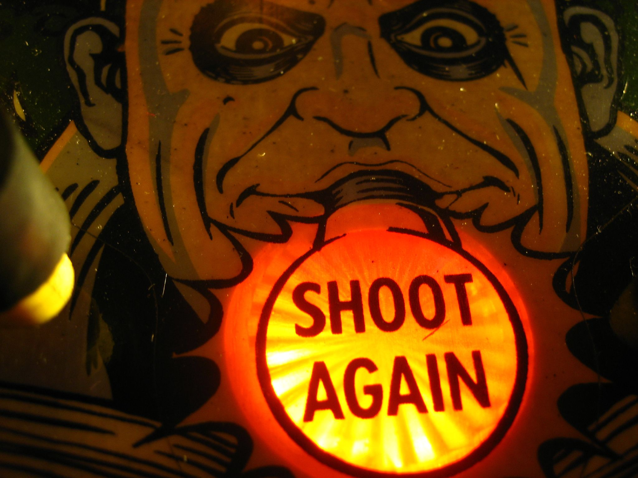 Detail of pinball machine The Addams Family